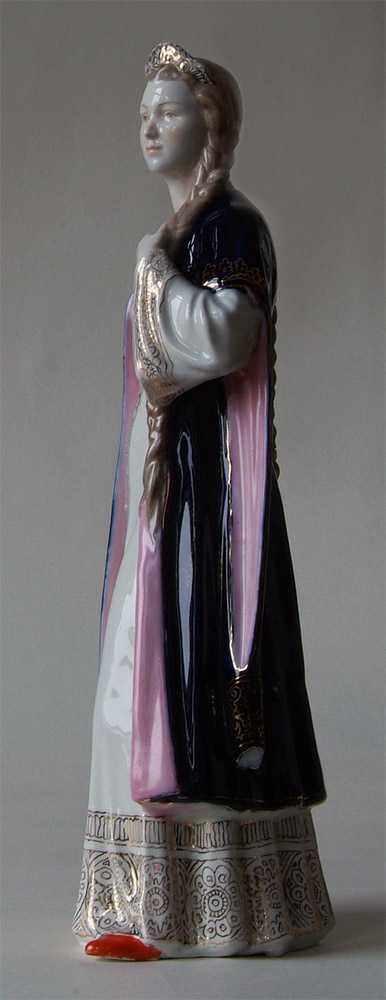 Porcelain sculpture «Lubava» - one of the four figures of the sculptural composition on the fairy tale «Sadko». Height 42 cm. Art and Industry Academy Stieglitz, Leningrad, USSR. Diploma work (1954). Porcelain of the soviet sculptor Bronislav Bystrushkin (1926-1977). Lomonosov's Porcelain Factory, Leningrad, USSR.